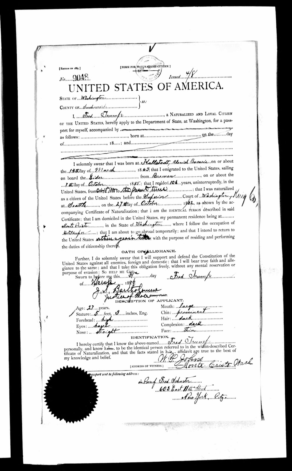 U.S. Passport application filed by Fred Trump of Monte Cristo, Snohomish County, WA